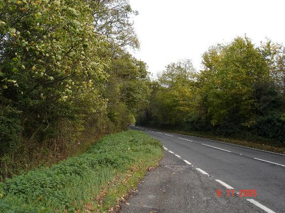 A543 in Autumn Glory. View of the A543 between Denbigh and Bodfari seen in its Autumn glory